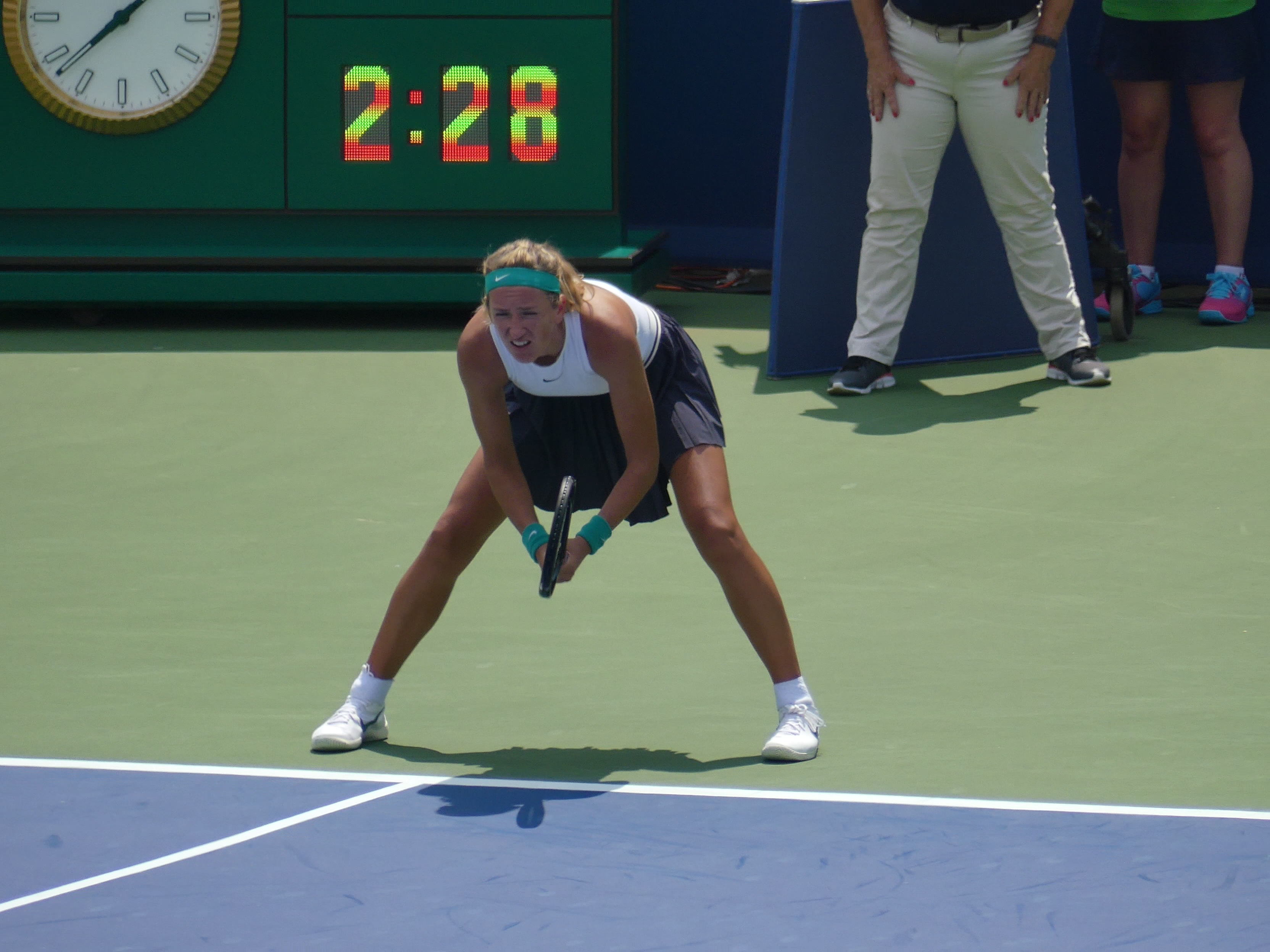 Victoria Azarenka during her first round match of the 2018 Western and Southern Open against Carla Suárez Navarro.